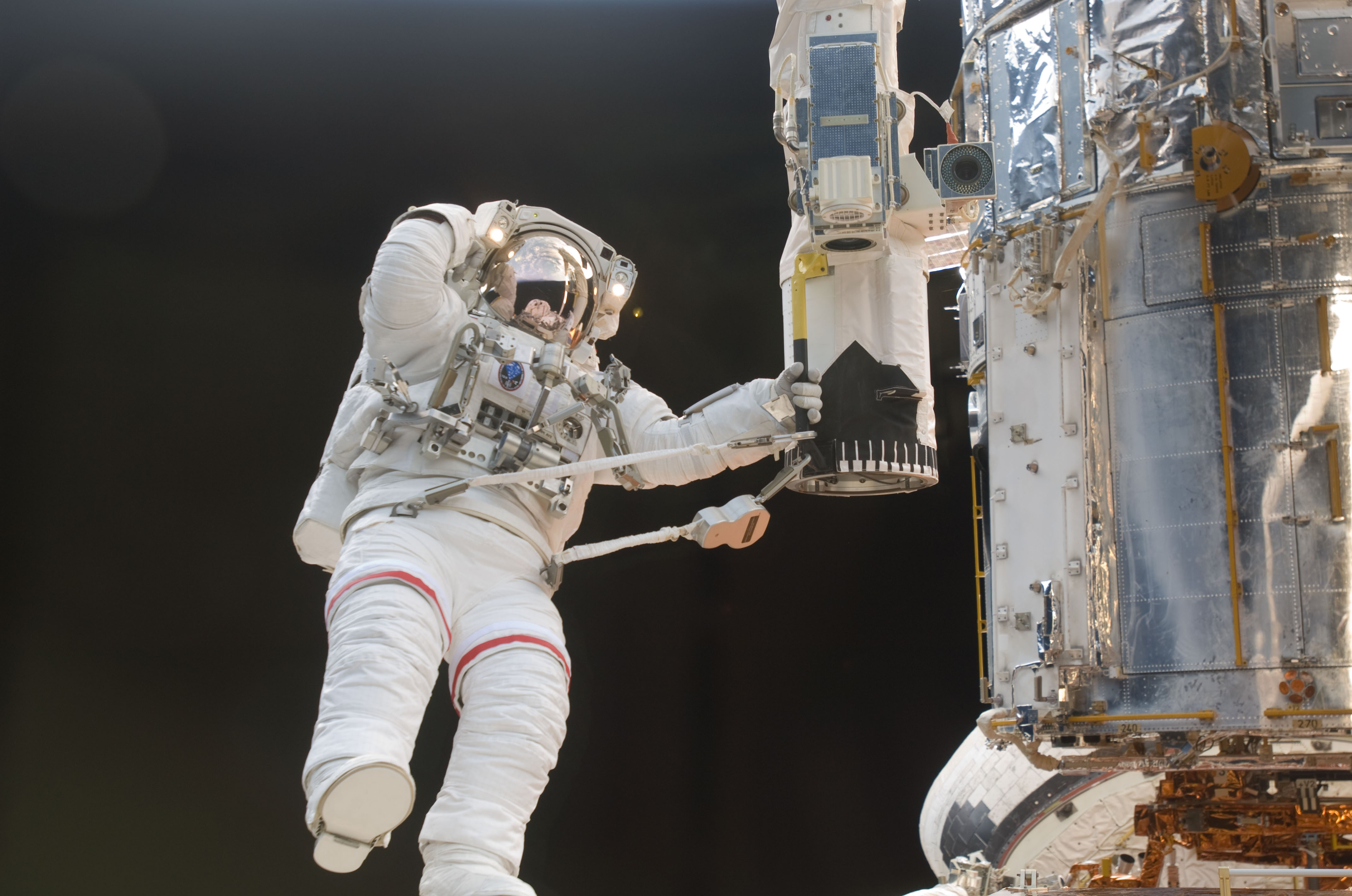 Astronaut John Grunsfeld, STS-125 mission specialist, participates in the mission's fifth and final session of extravehicular activity (EVA) as work continues to refurbish and upgrade the Hubble Space Telescope. During the seven-hour and two-minute spacewalk, Grunsfeld and astronaut Andrew Feustel (out of frame), mission specialist, installed a battery group replacement, removed and replaced a Fine Guidance Sensor and three thermal blankets (NOBL) protecting Hubble's electronics.